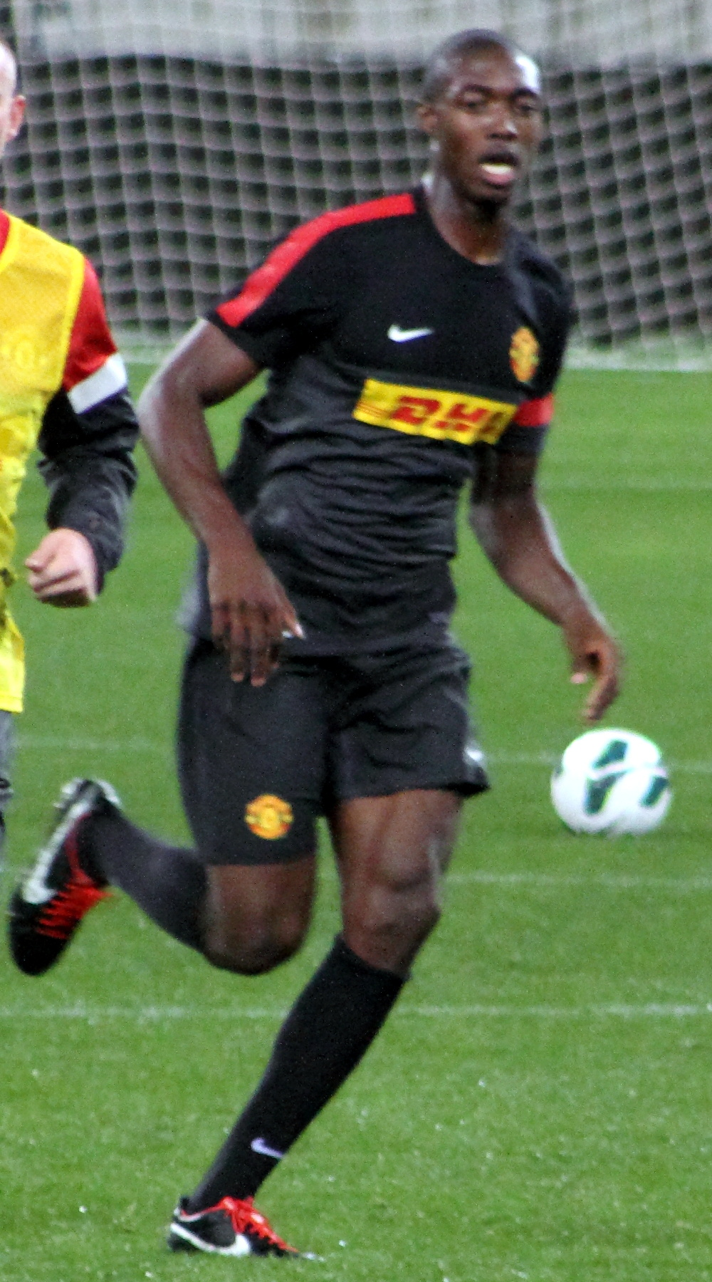 Crop of Tyler Blacket from photo training in Cape Town in 2012. Levels adjusted. If you would like to use the picture please provide a link back to if possible